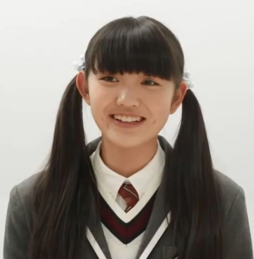 Sakura Gakuin Exclusive Interview with Japanese Station